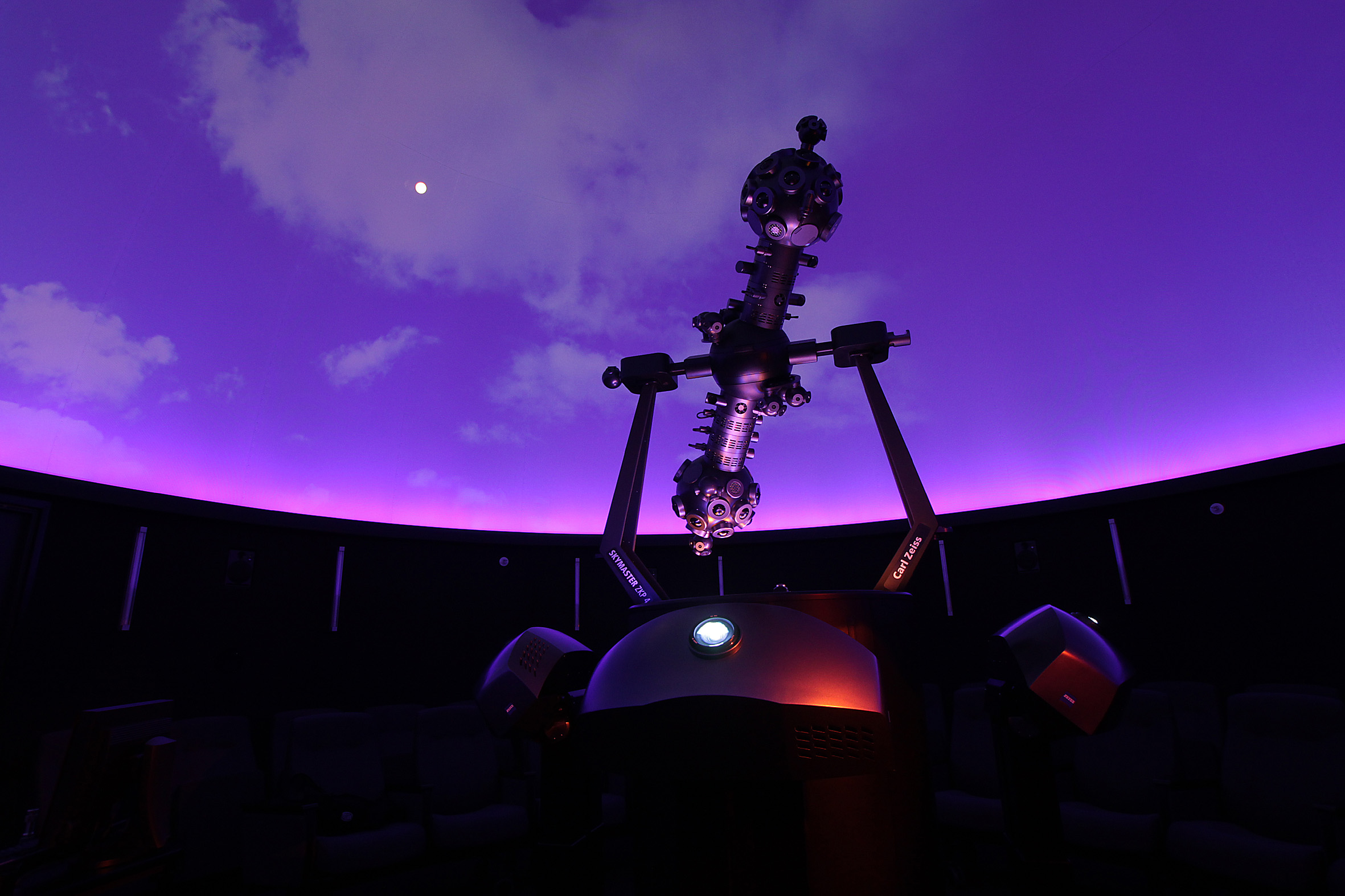 The inside of the planetarium at Vitenfabrikken, a science museum in Sandnes, Norway.